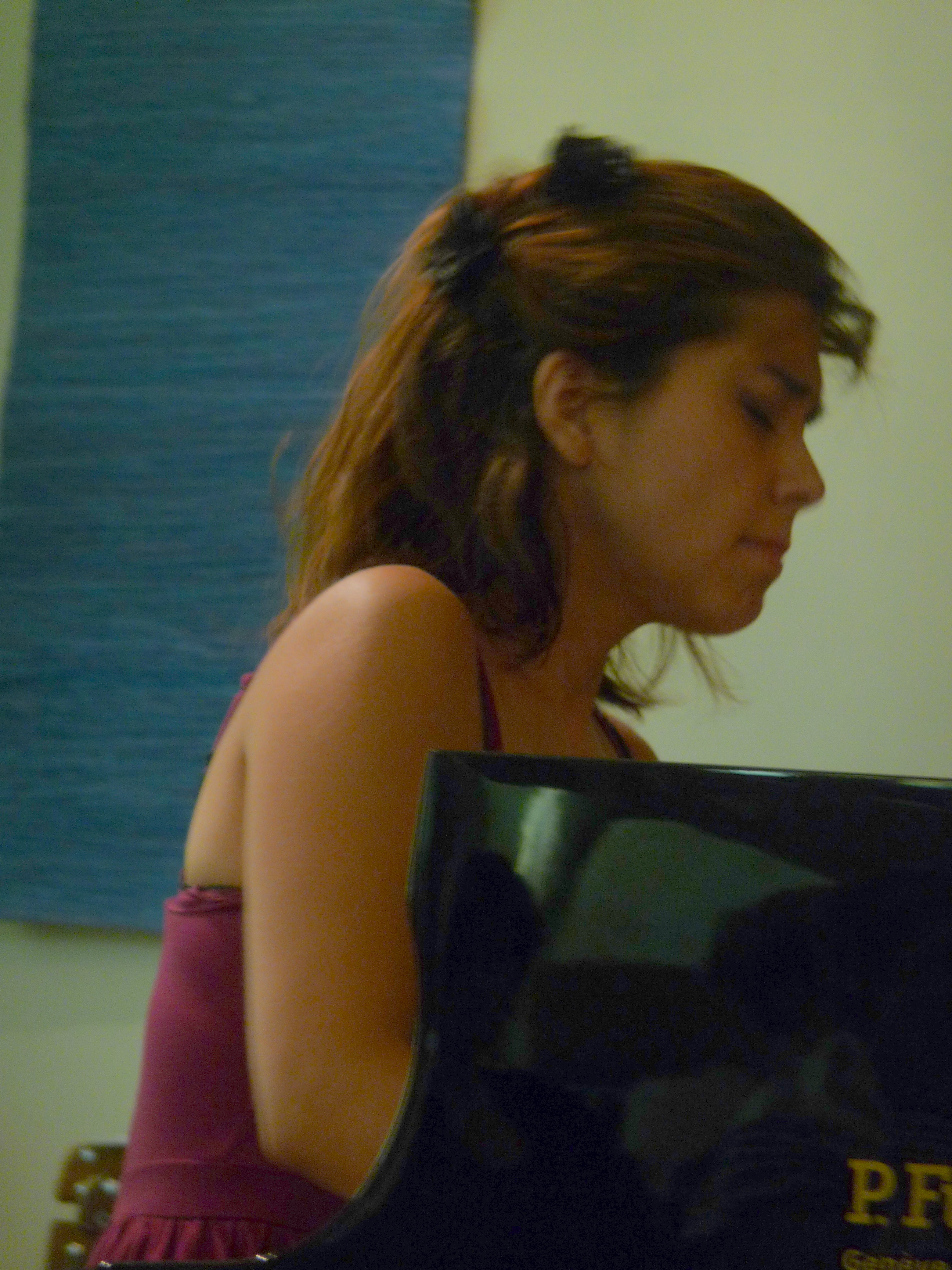 Pianist Carla Sandoval during Concert in Geneva, july 2011